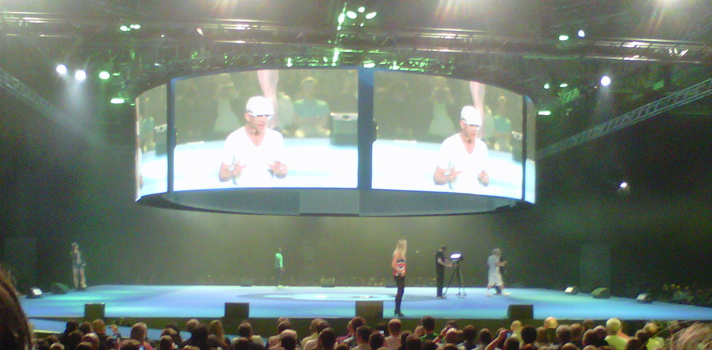 The live show at The Gadget Show Live 2012.